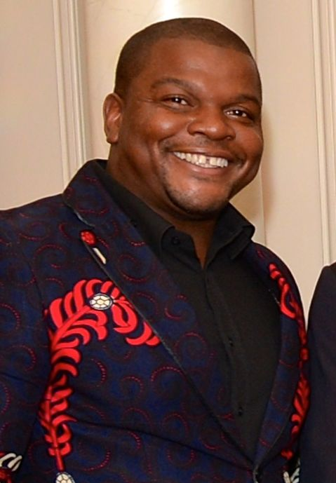 Kehinde Wiley, a 2015 recipient of the U.S. Department of State-Medal of Arts, before a ceremony at the U.S. Department of State in Washington, D.C., on January 21, 2015. [State Department photo/ Public Domain]